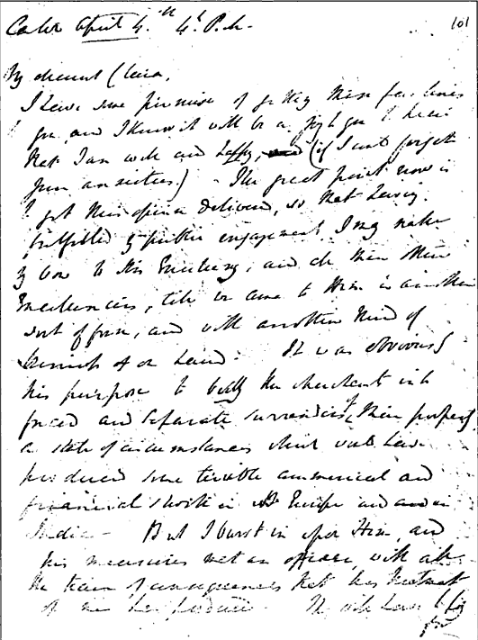 Charles Elliot's handwriting to Clara Elliot.